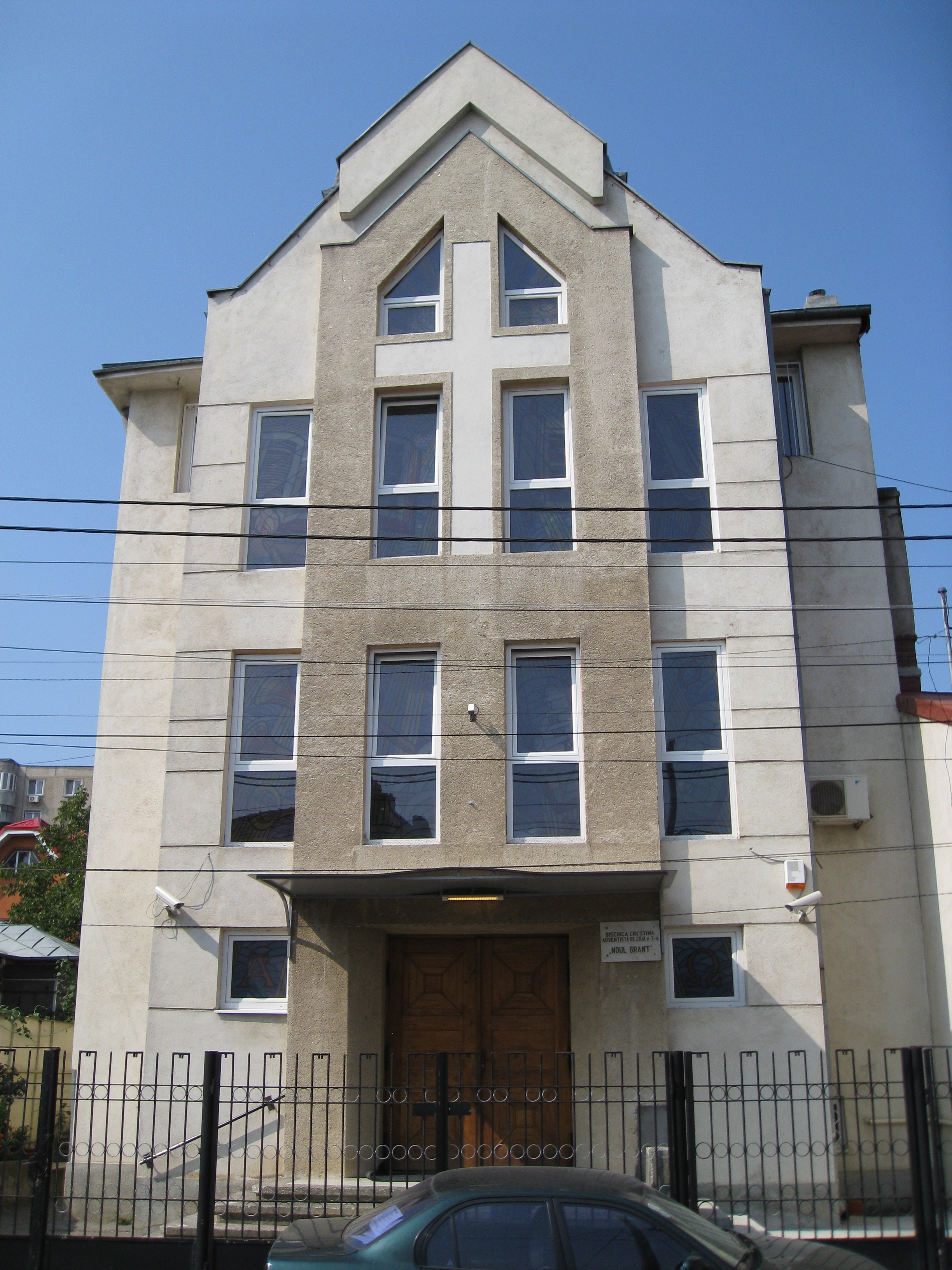 Adventist church in Giuleşti, Bucharest, Romania